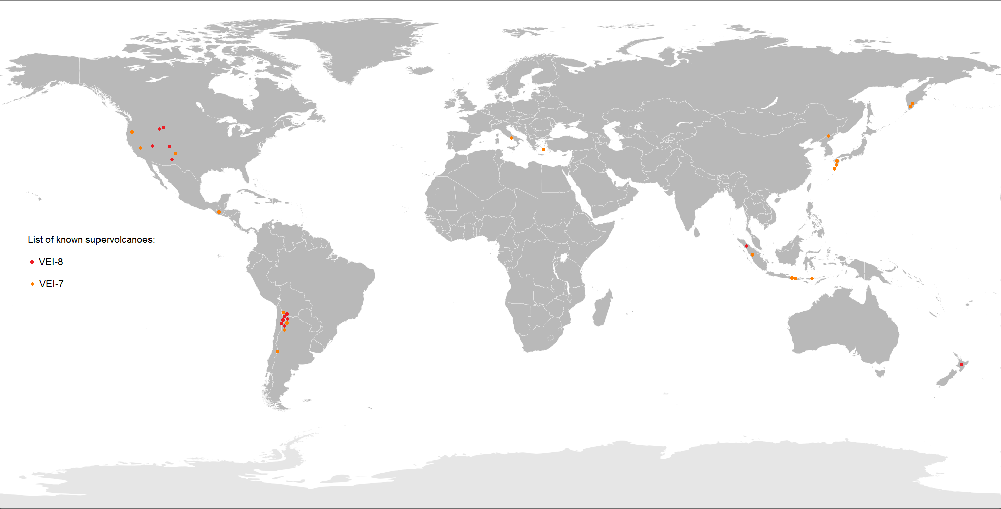 Map of known supervolcanoes around the World. Volcanic Explosivity Index (VEI) 8 Volcanic Explosivity Index (VEI) 7